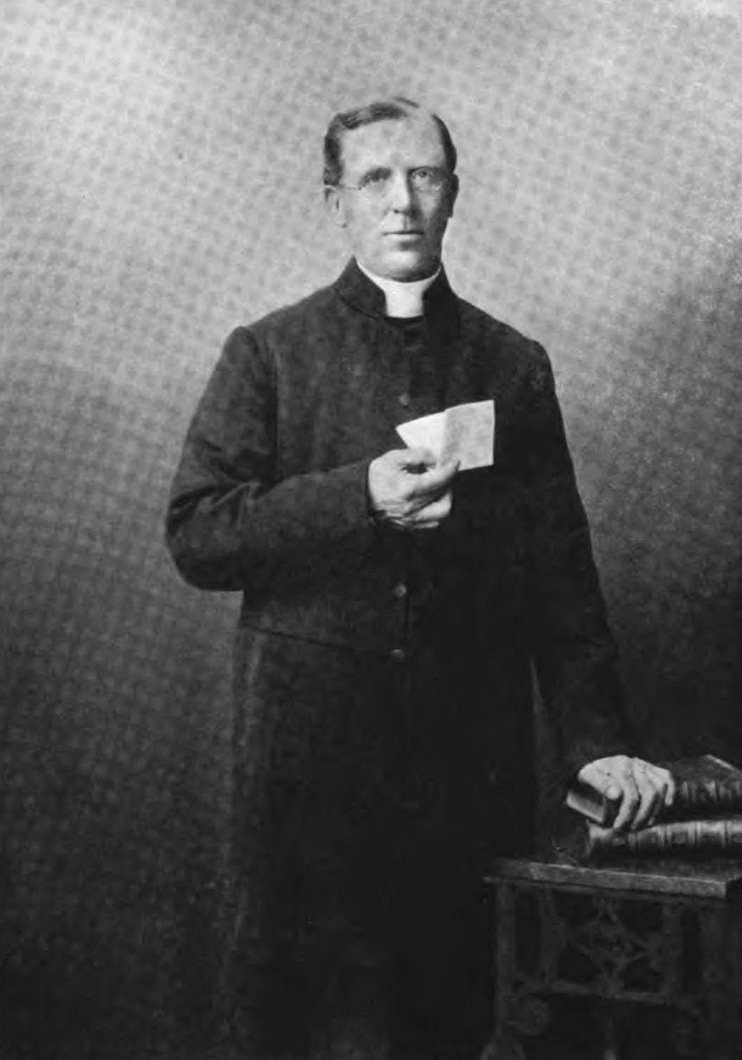 "Pastor of Doneraile"